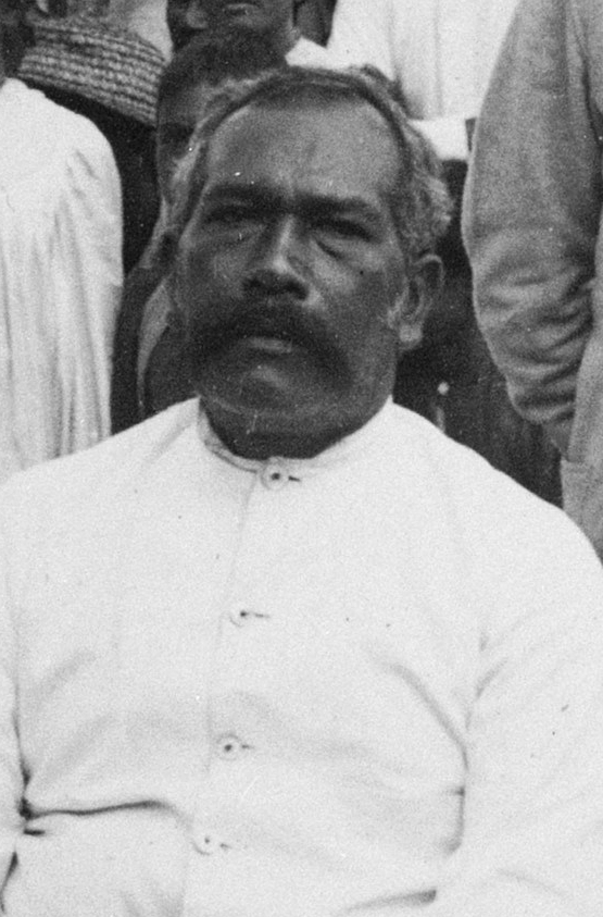 King John of Mangaia during the visit of the Premier of New Zealand, John Seddon in 1900.